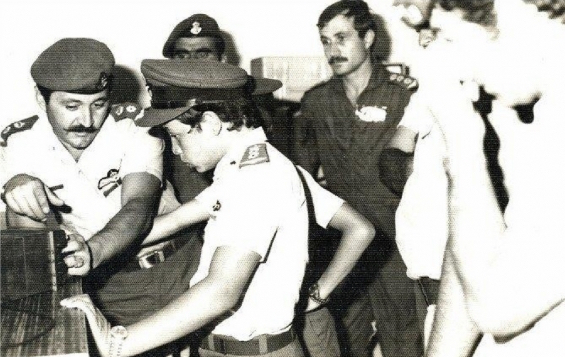 King Abdullah II of Jordan as a young prince during a visit to the Royal Jordanian Air Force in 1973